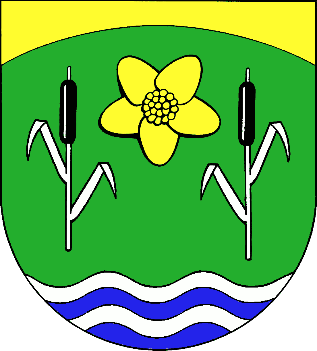 Coat of arms of the municipality Bebensee in Schleswig-Holstein, Germany.